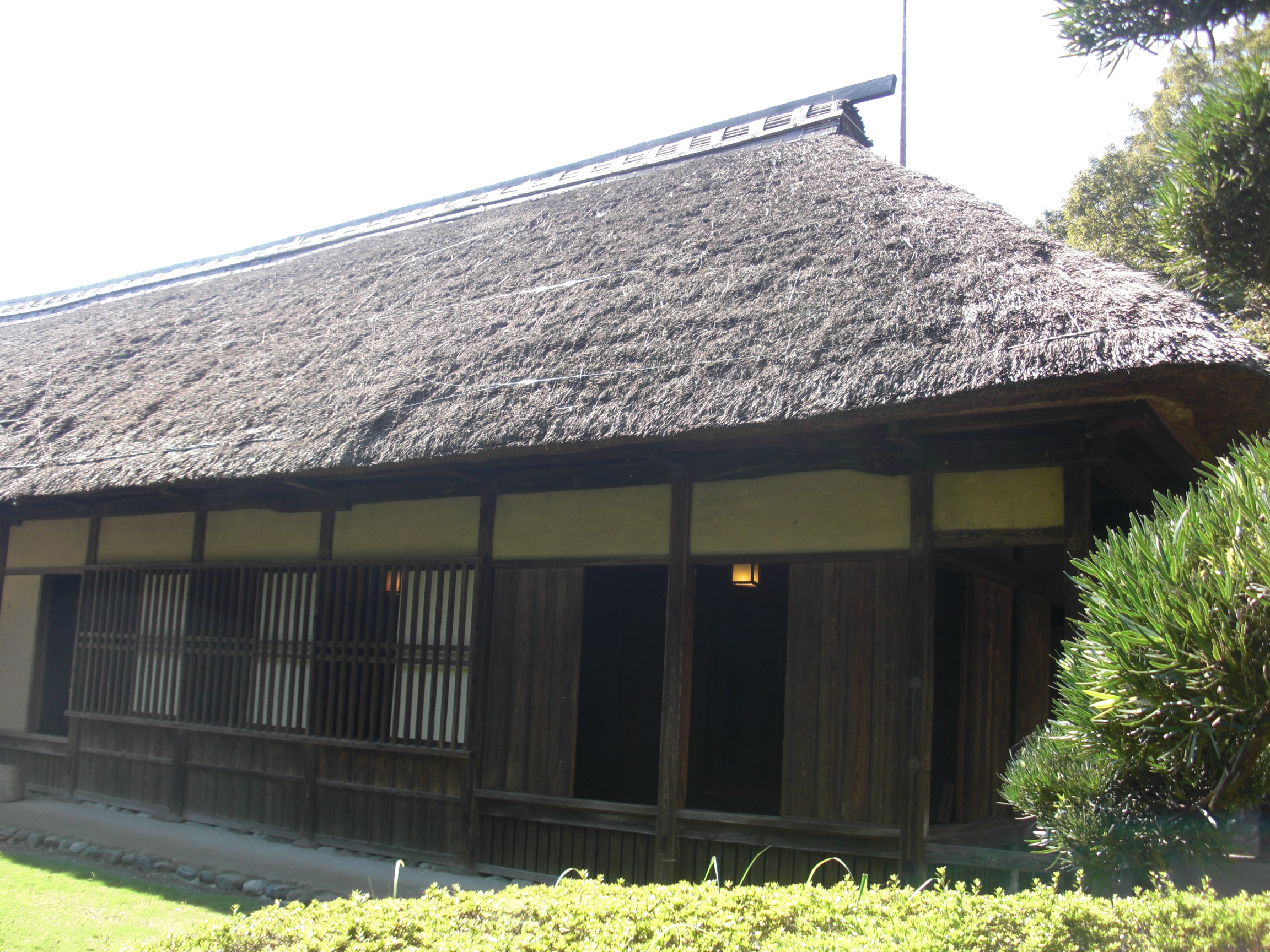 This is the former Anzai family house, which is located in Kisarazu, Chiba, Japan.